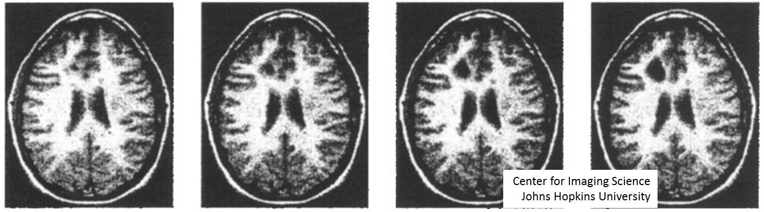 MRI simulated tumor using metamorphosis